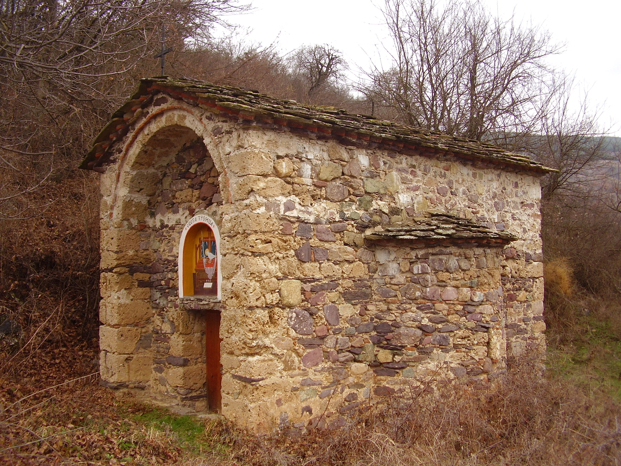 Late Medieval church "Holy Trinity", village Pastuh, Nevestino Municipality, Bulgaria